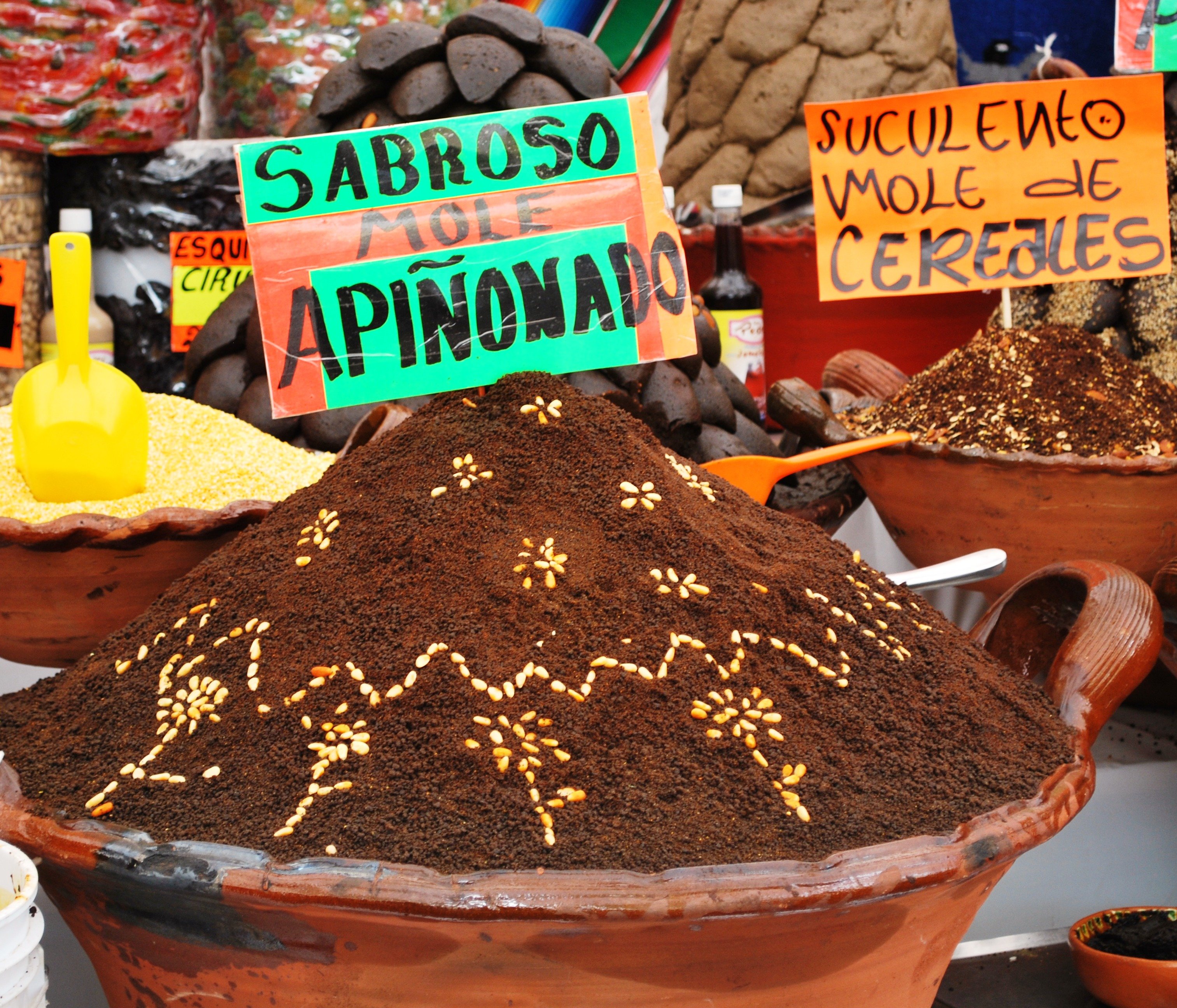 Pine nut mole for sale at the Feria de Mole in San Pedro Atocpan, DF